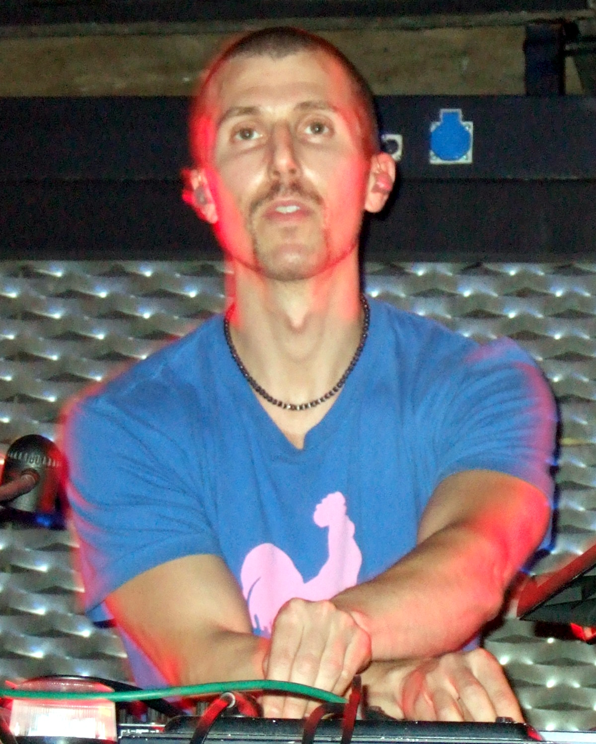 Josh Wink at work, 2007-05-13. Cropped and tweaked from original.